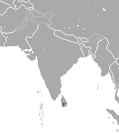 Golden Palm Civet (Paradoxurus zeylonensis) range with national borders